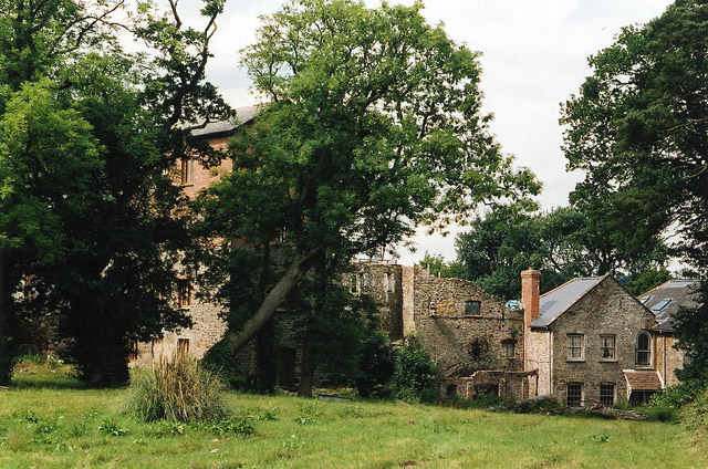 North Tawton: Newland Mill. The nineteenth century steam-powered mill hides behind the trees on the left. The earlier watermill is a ruin, centre, with a house to its right. The shrouds of a large breastshot waterwheel survived here in 2004 before the site was redeveloped. It is just visible through the brick opening. Looking west